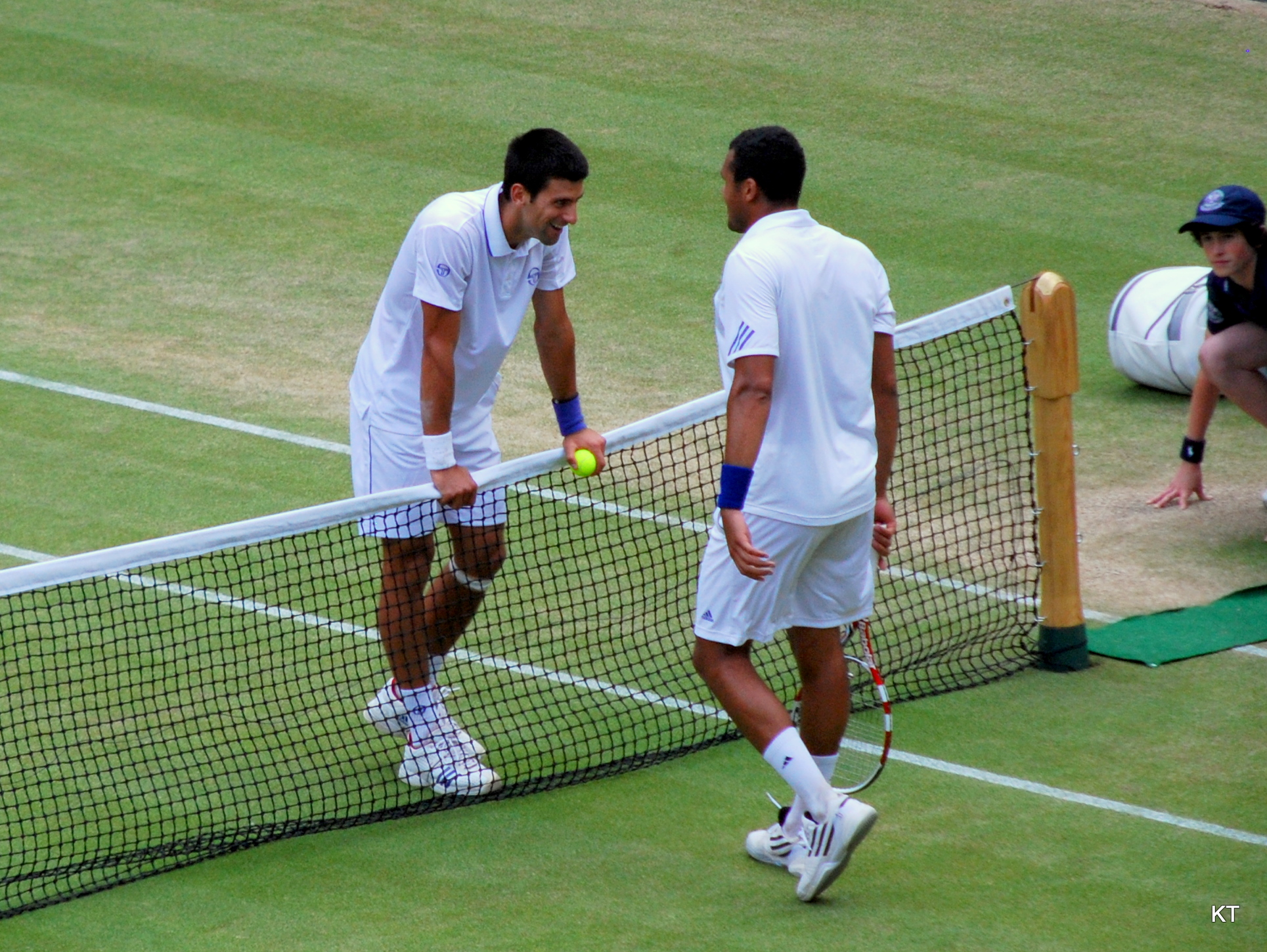 Novak Djokovic and Jo-Wilfried Tsonga at the end of their semi-final. Djokovic won 7-6, 6-2, 6-7, 6-3, on his way to his first Wimbledon title. Day 11 of Wimbledon 2011.